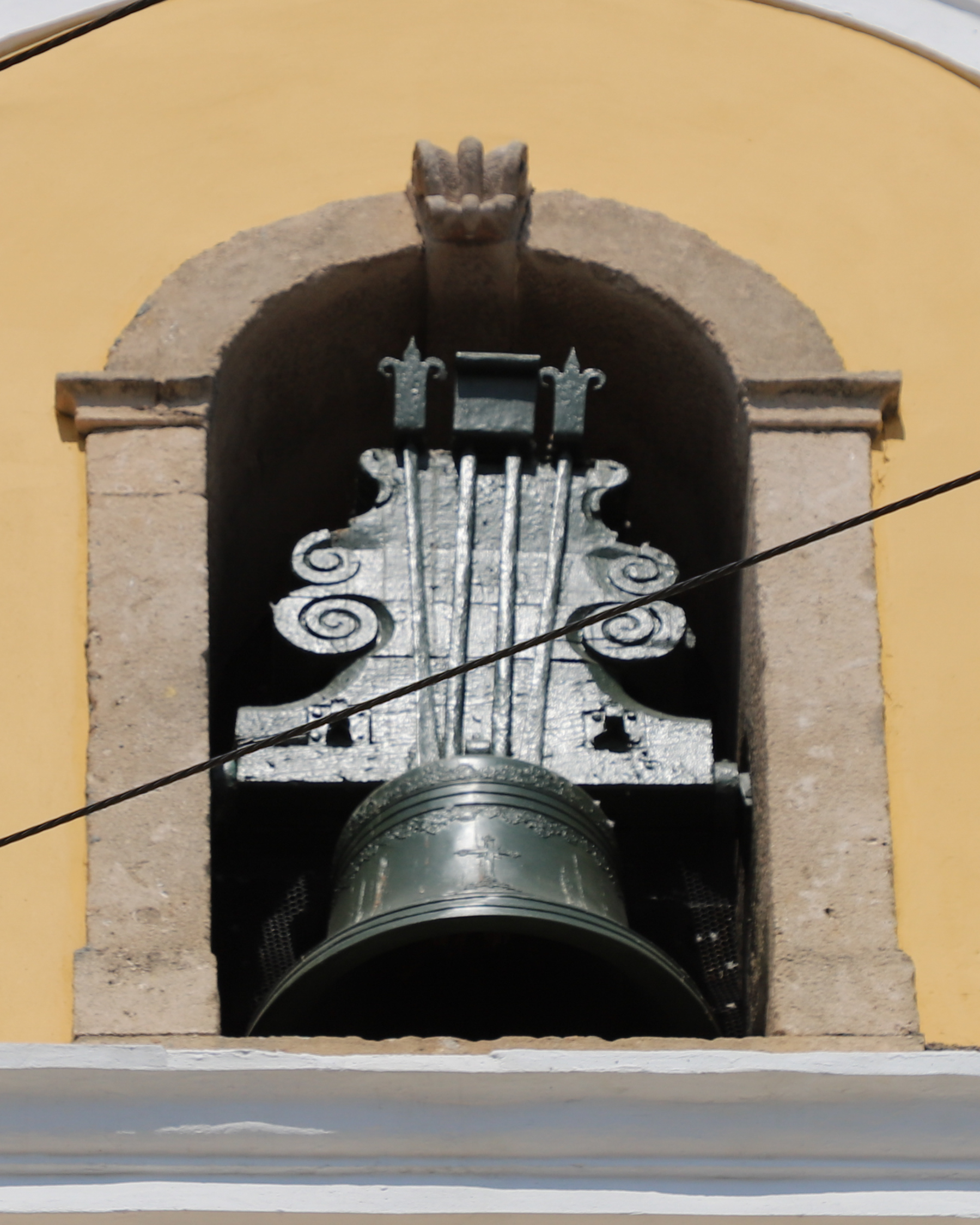 Igreja de Nossa Senhora da Saúde e Glória (Church of Our Lady of Health and Glory), Salvador, Bahia, Brazil.